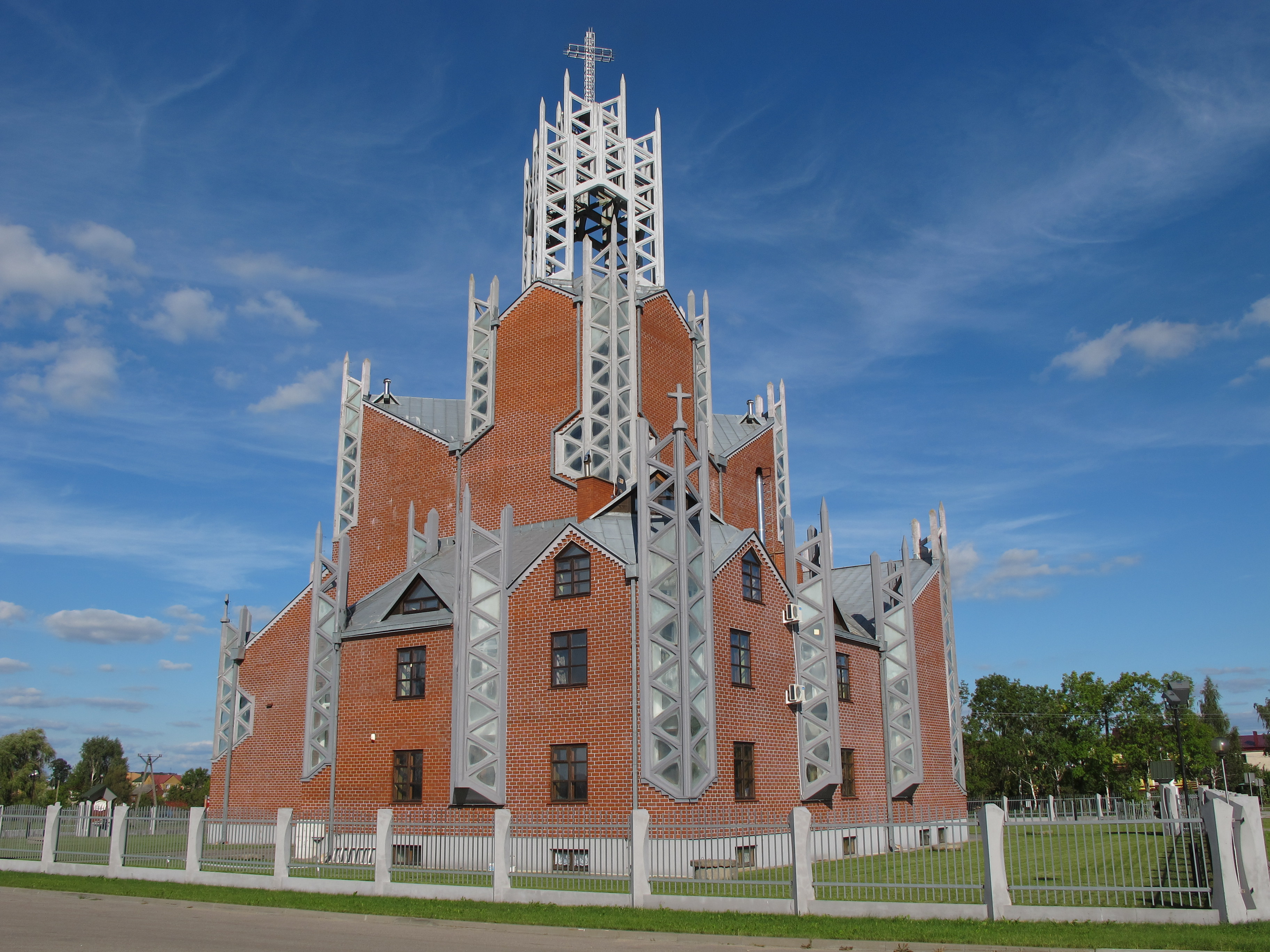 Divine Mercy church by Wojska Polskiego 66 street in Bielsk Podlaski